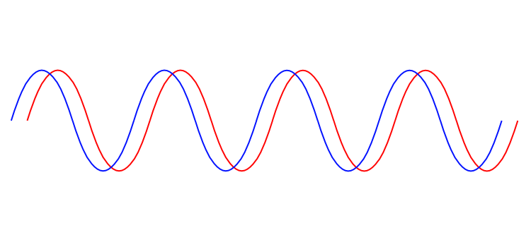 Sagnac effect 3 (No text)